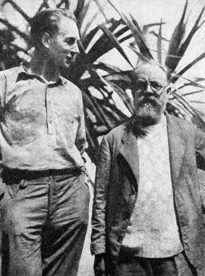 Henri Matisse and Friedrich Wilhelm Murnau at Tahiti, 1930.